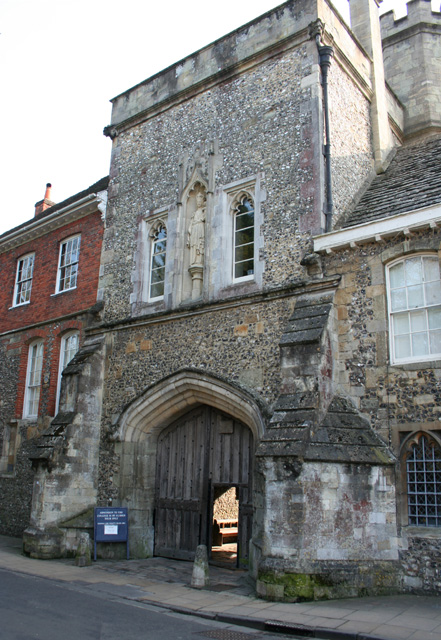 Outer Gate, College Street, Winchester Winchester College was founded in 1382, and is formerly known as the College of St Mary. This grade-I-listed outer gatehouse on College Street is part of its original buildings, and dates from the late 14th century. The statue in the central niche depicts the Virgin Mary. For more details